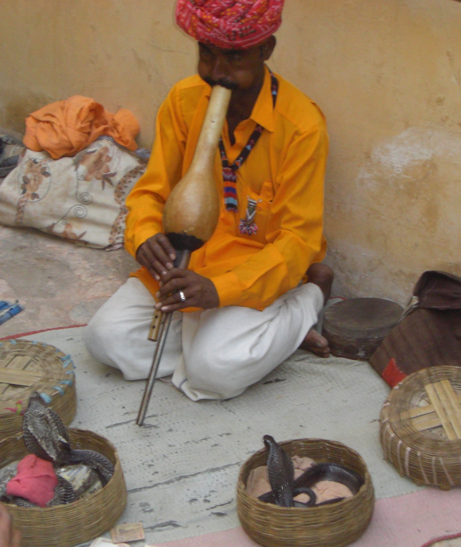 Snake charmer at the main gate of the Amber Fort, Jaipur, India